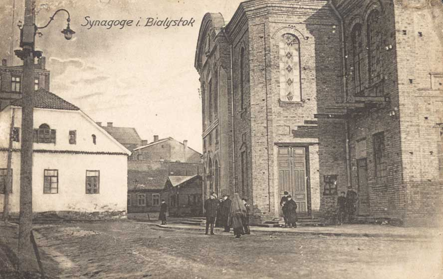 Great Synagogue and Synagogue Nomer Tamid in Białystok (Suraska Street).